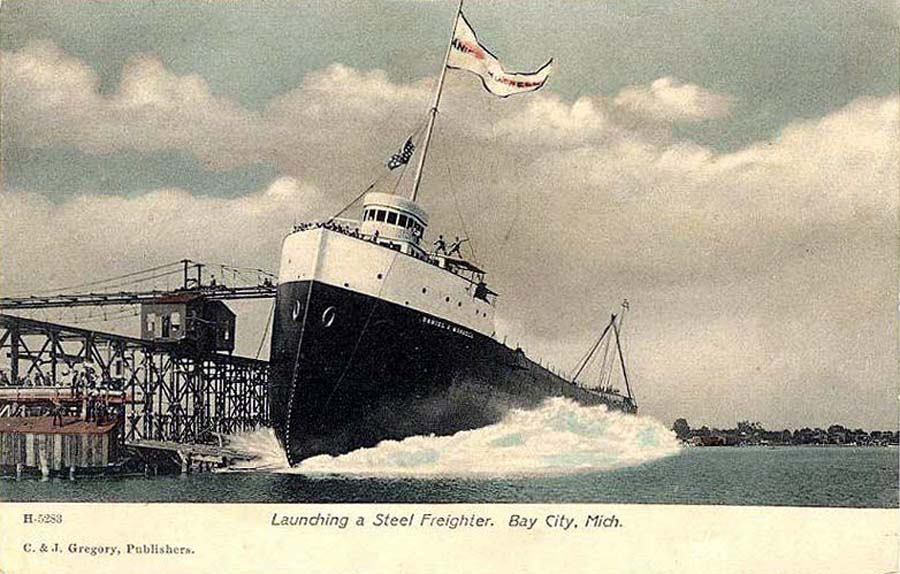 Launch of the SS Daniel J. Morrell in Bay City, Michigan